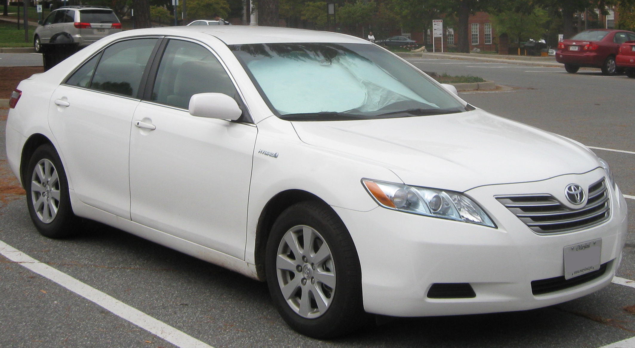 2007-2009 Toyota Camry Hybrid photographed in College Park, Maryland, USA.